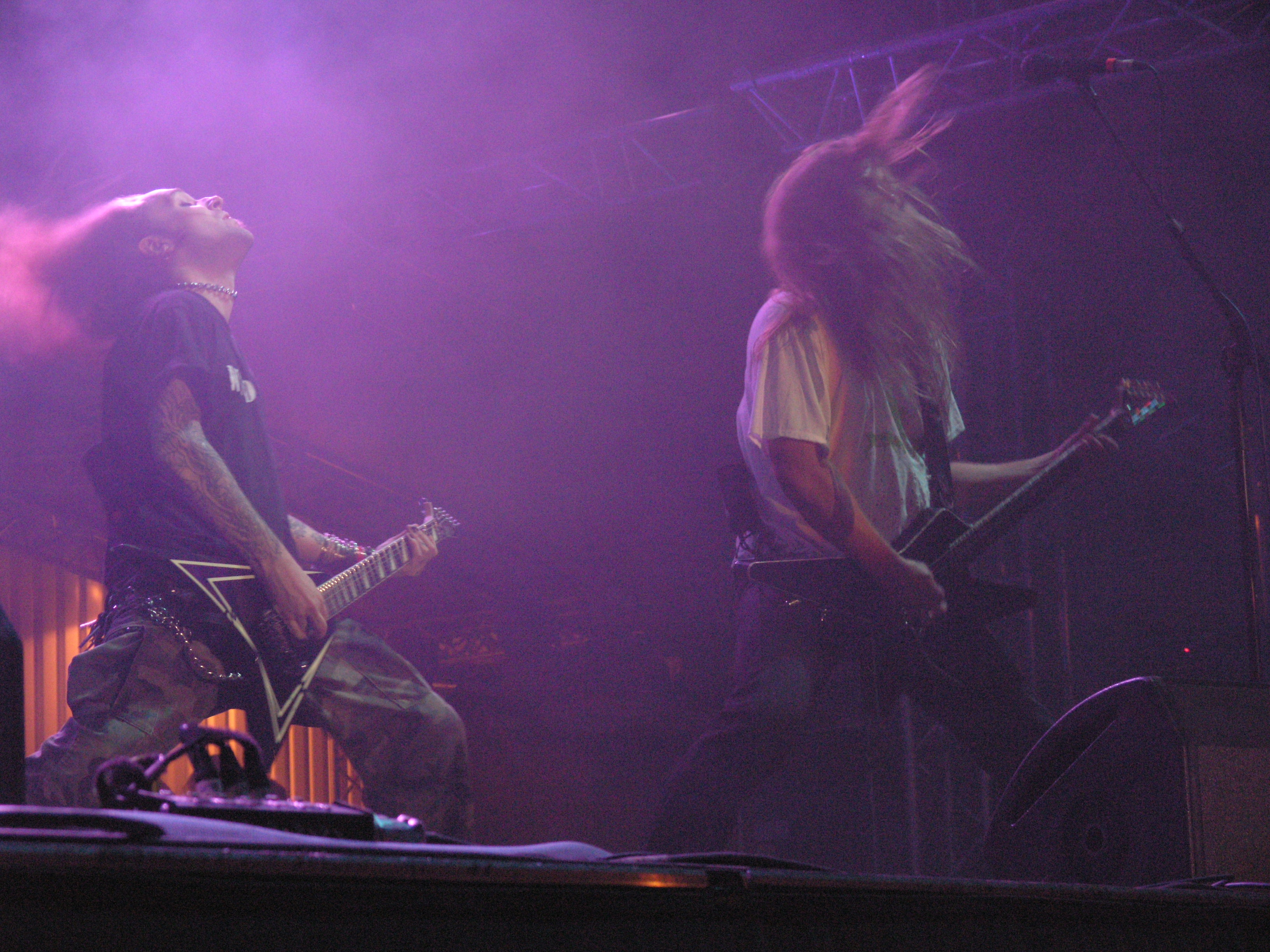 Music band Children of Bodom during Masters of Rock 2007 festival